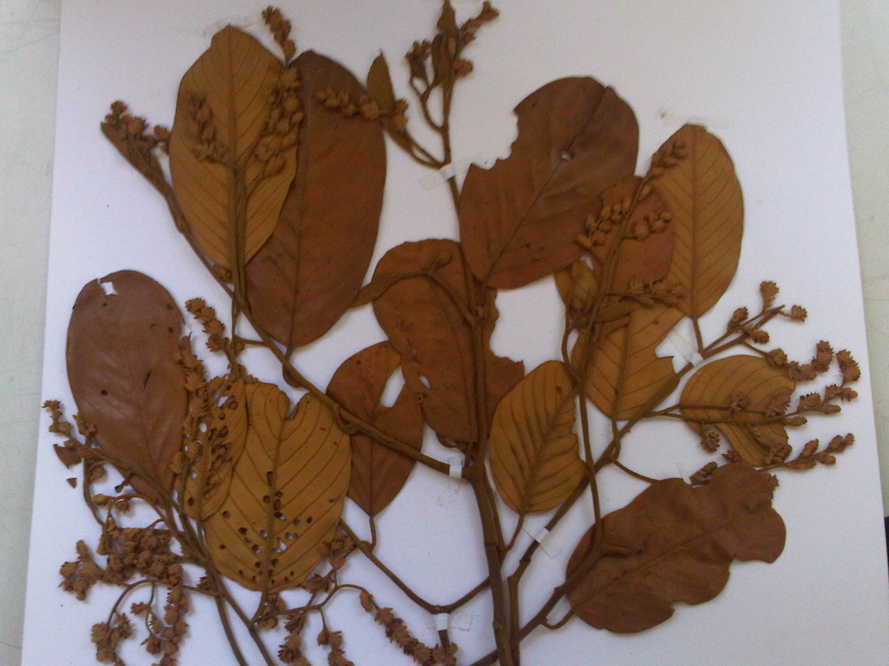 Material herbarium of Shorea leprosula